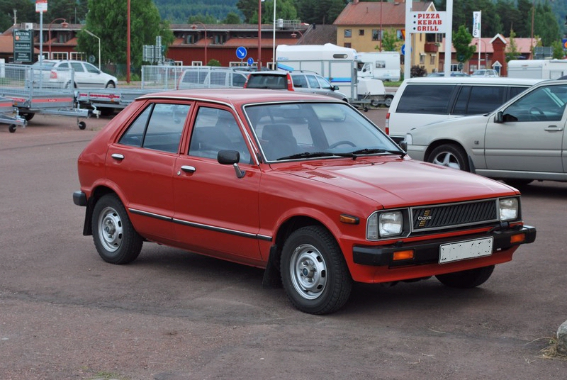 Daihatsu Charade G10 -83, ch.nr. G1001339560